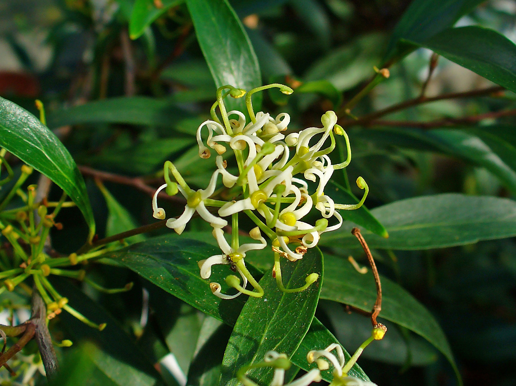 Stenocarpus salignus, Proteaceae, Scrub Beefwood, inflorescence; Botanic Garden Universiy Tübingen, Germany.